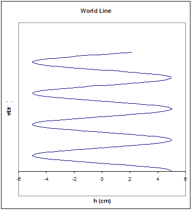 Complexica (author)